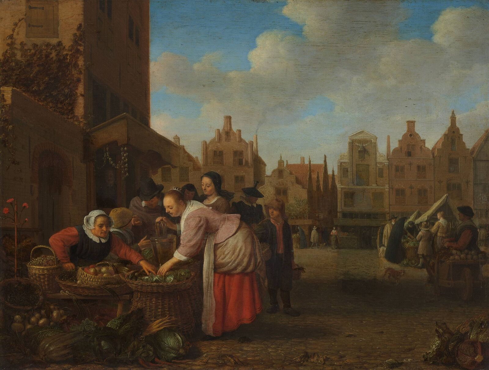 View of the Grote Markt in Rotterdam, seen from the Wijde Marktsteeg.